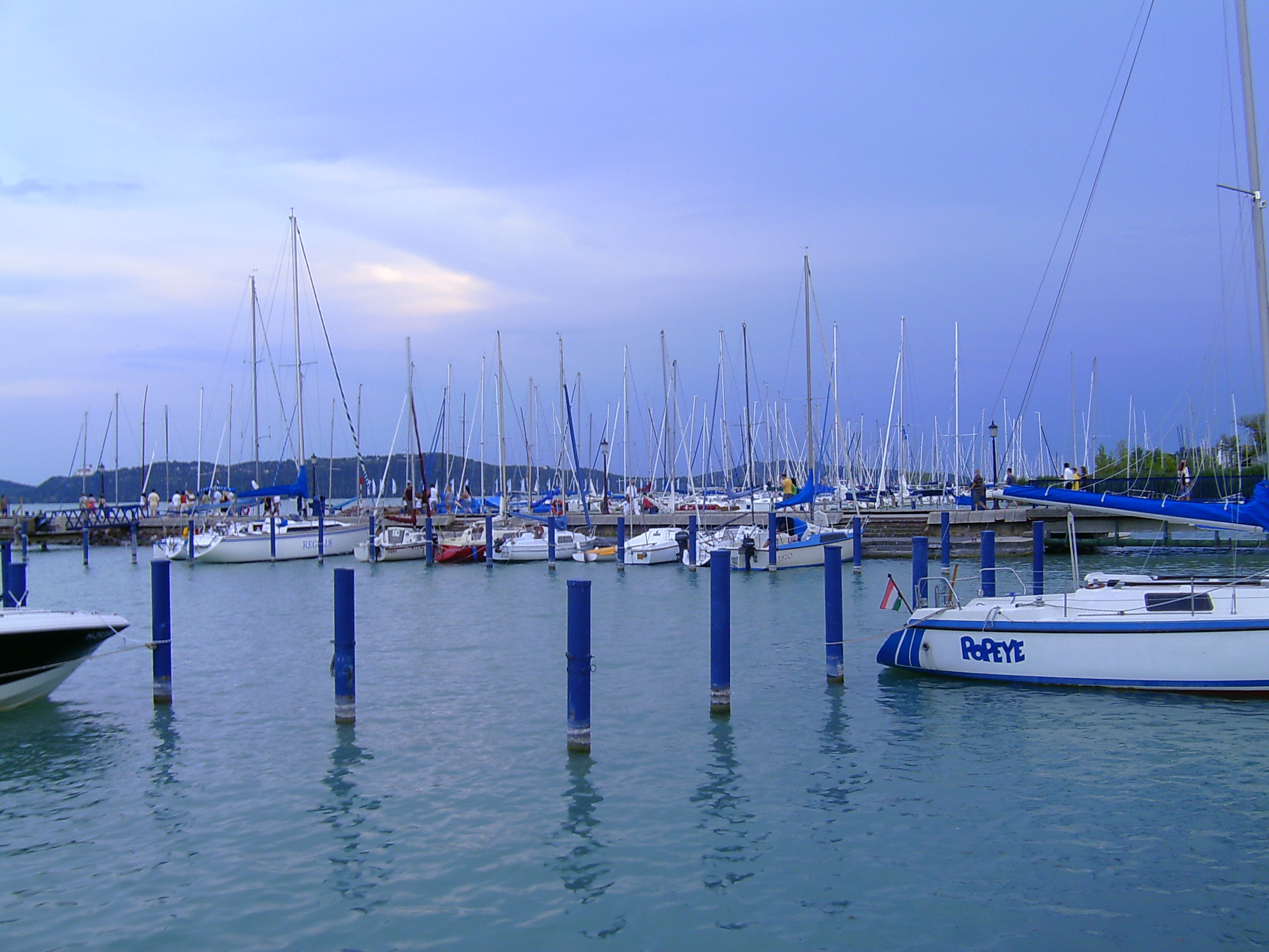 Small Ships on the Lake Balaton at Balatonfüred, Hungary